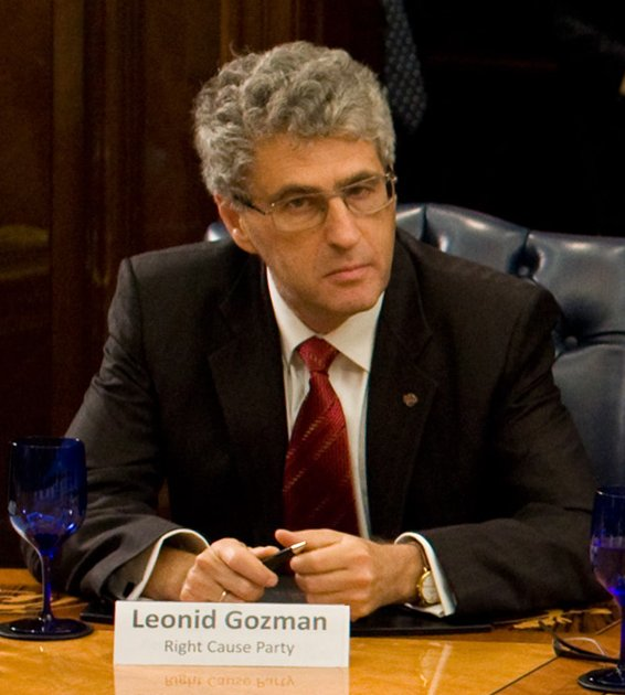 Leonid Gozman, the co-leader of the Russian Right Cause party in 2008-2011.